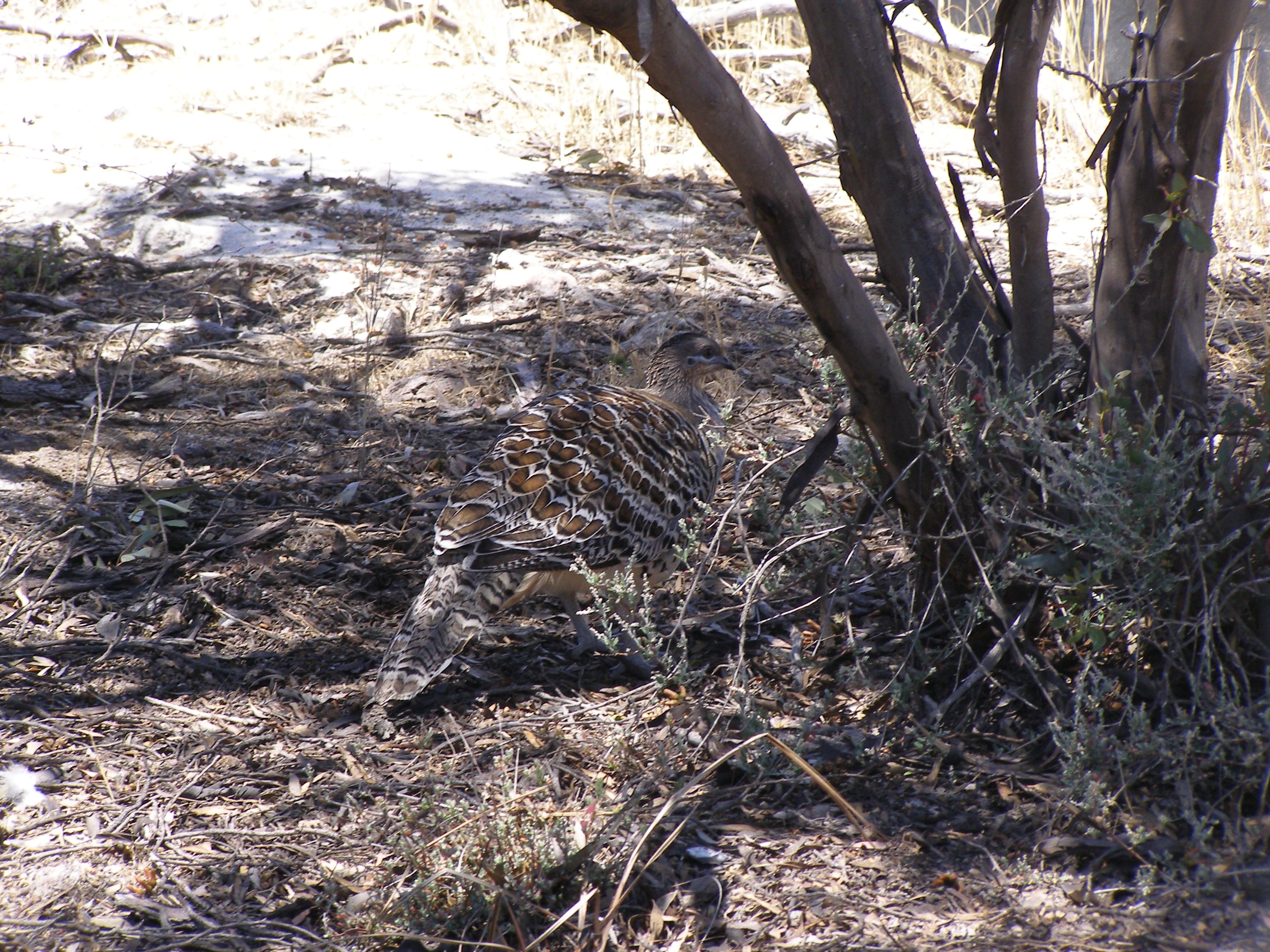 Malleefowl in camouflage, Yongergnow Malleefowl Centre, Ongerup, Western Australia